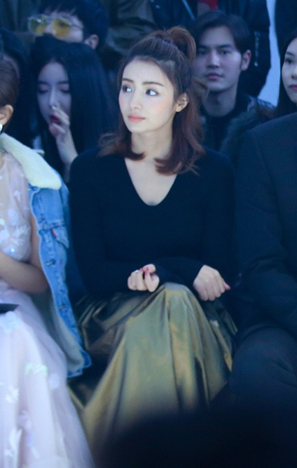 Image of Madina Memet cropped from original